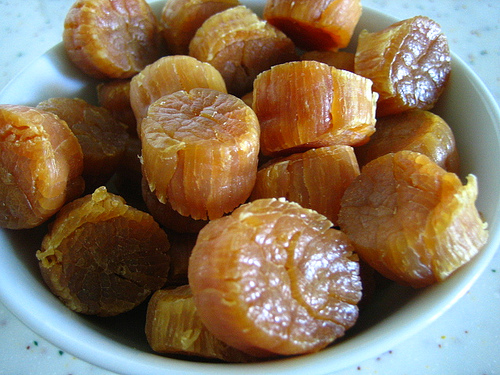 Upclose Dried scallop conpoy